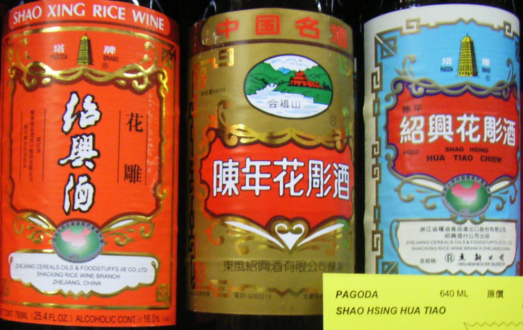 Chinese wine - Shao Hsing Hua Tiao